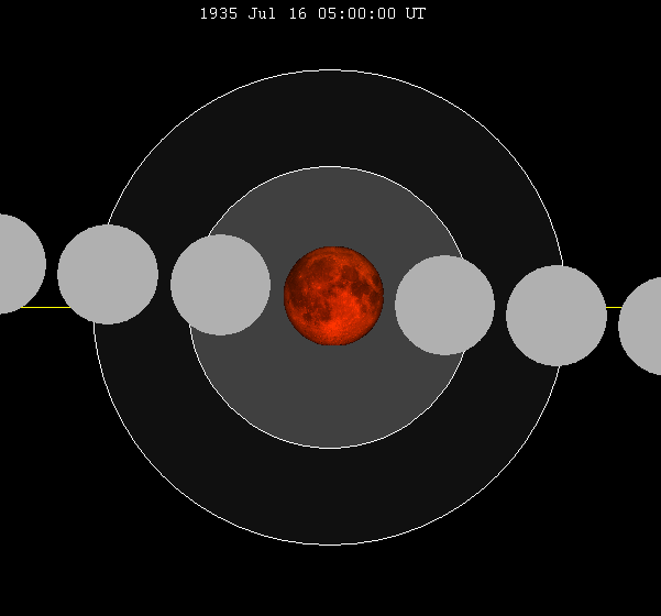 July 1935 lunar eclipse chart of moon's lunar eclipse path through the earth's shadow. thumb